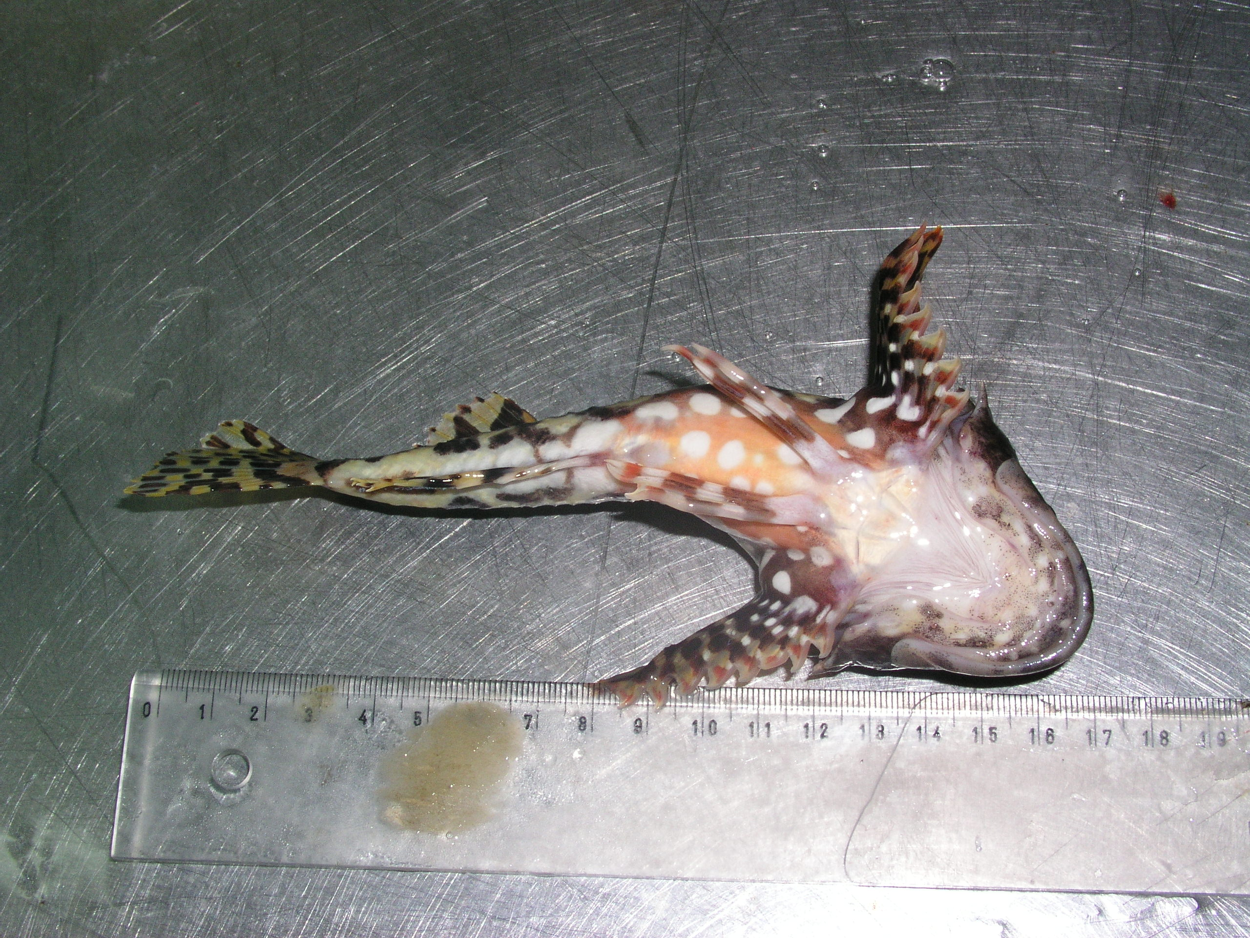 Shorthorn sculpin (Myoxocephalus scorpius) from the Gulf of Gdansk near Hel, Poland